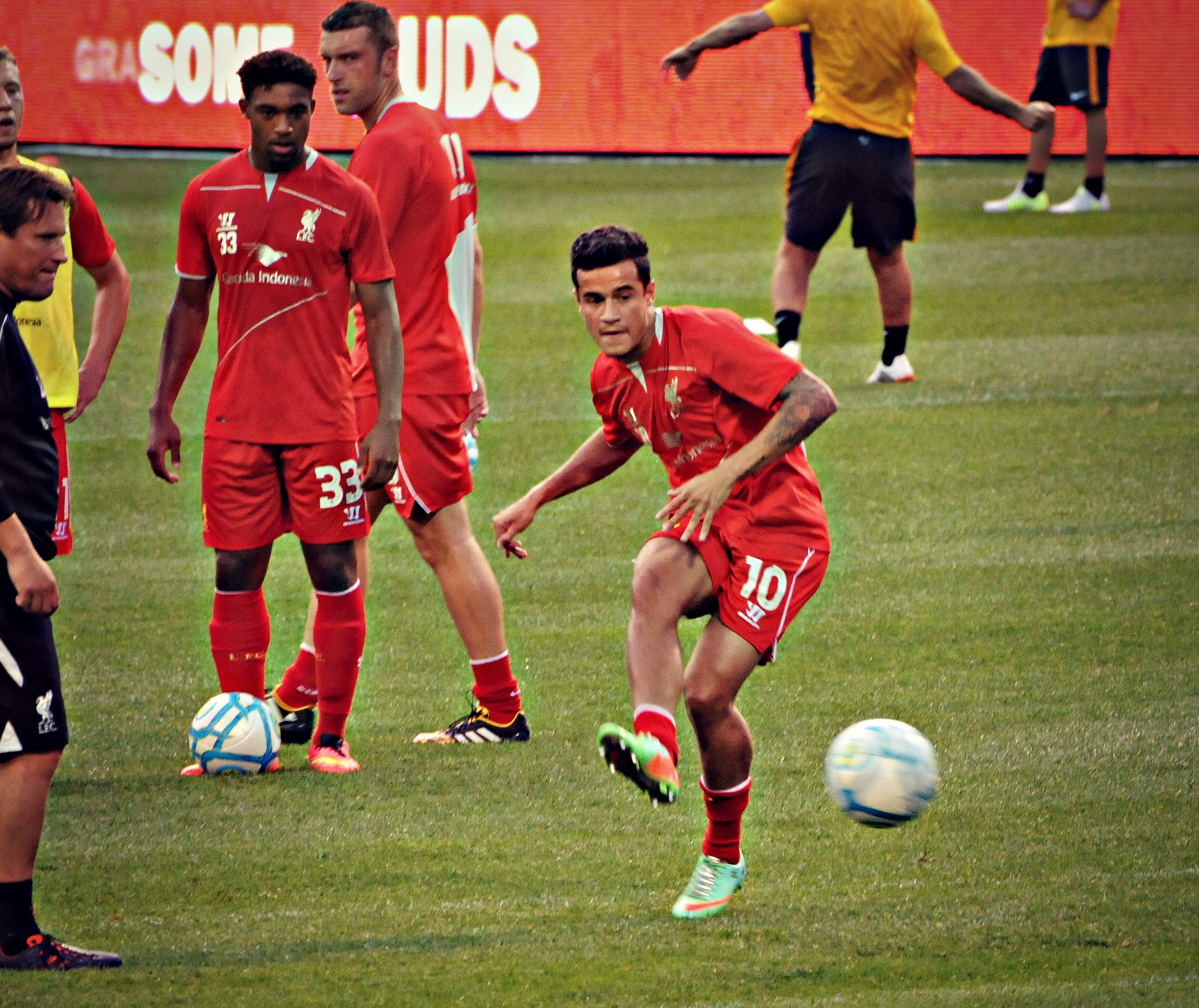 Brazilian association football player Philippe Coutinho at a warm-up before a friendly game Liverpool FC v AS Roma at Fenway Park in Boston.